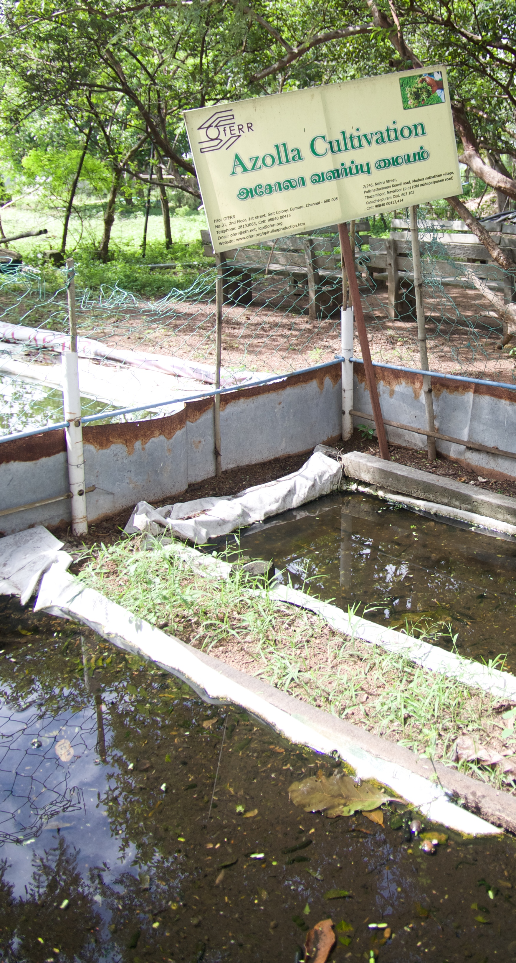 Azolla is a type of algae that is high in protein.